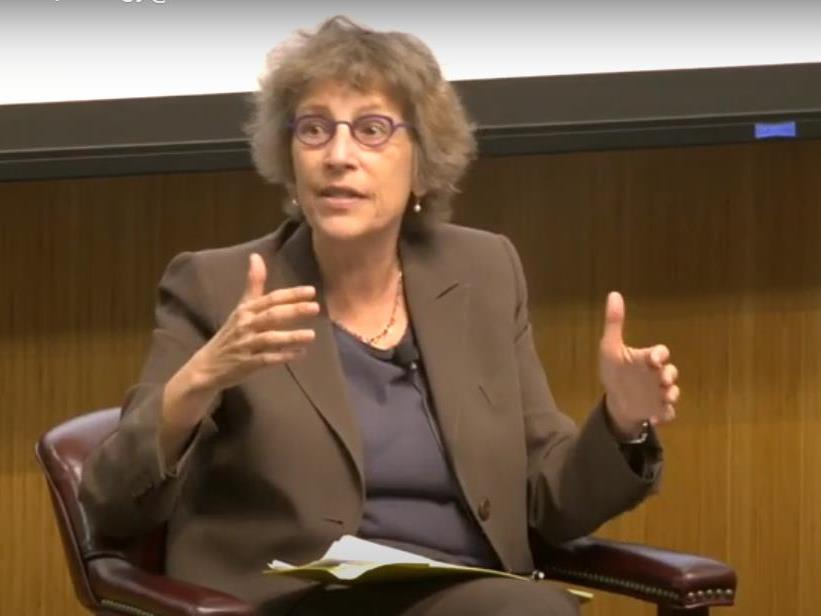 Debra Satz